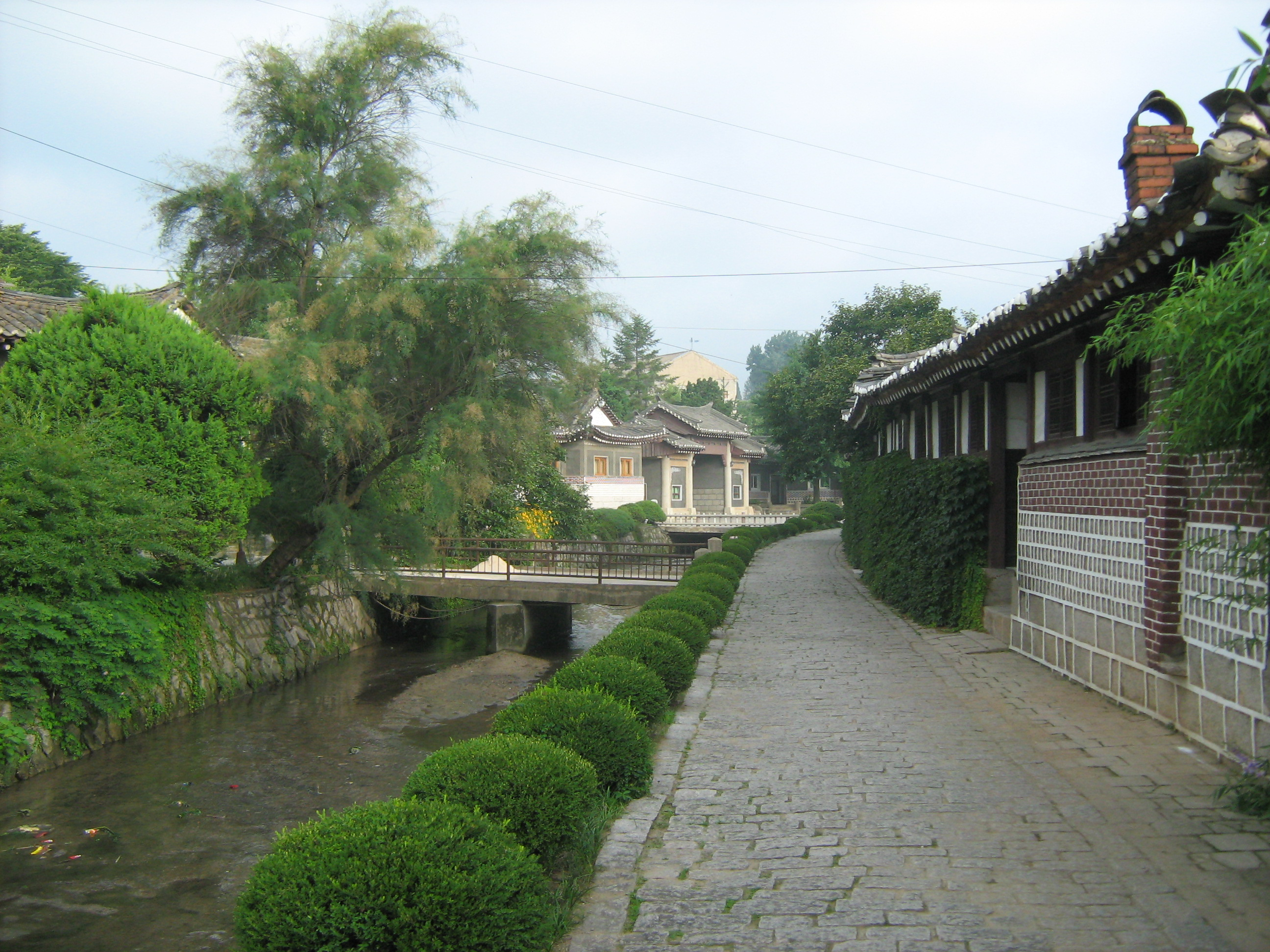 This shows the Kaesong Folk Hotel, Kaesong, North Korea, from inside the complex